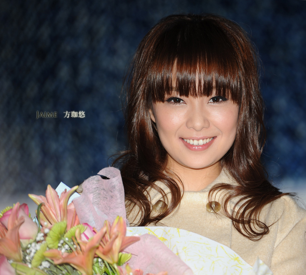 Jaime Fong